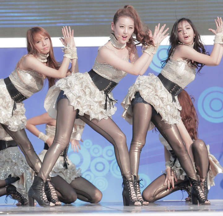 Rania at the Multicultural Festival, Gyeonggi-do, September 2011